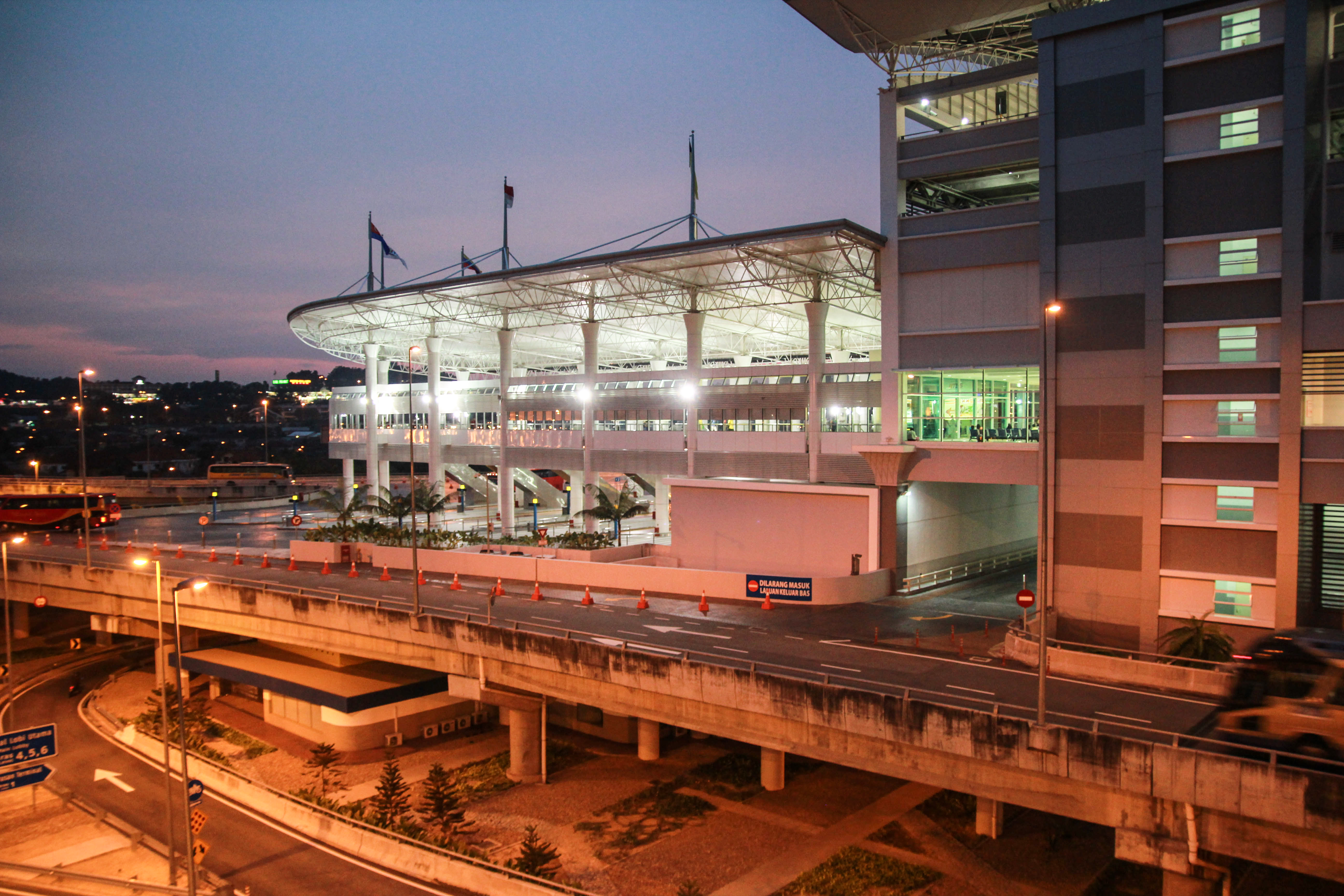 Terminal Bersepadu Selatan (TBS) in Bandar Tasik Selatan